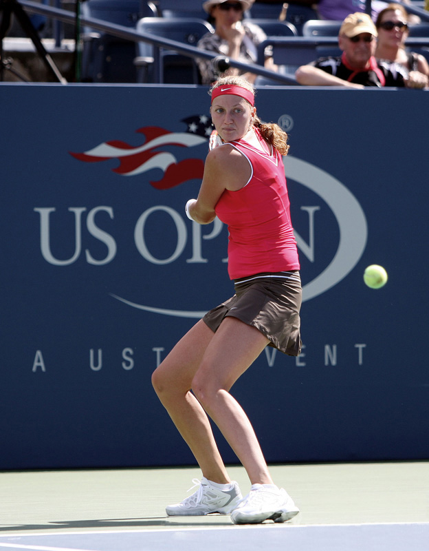 Czech tennis player Petra Kvitova at the 2011 US Open, 1st Round